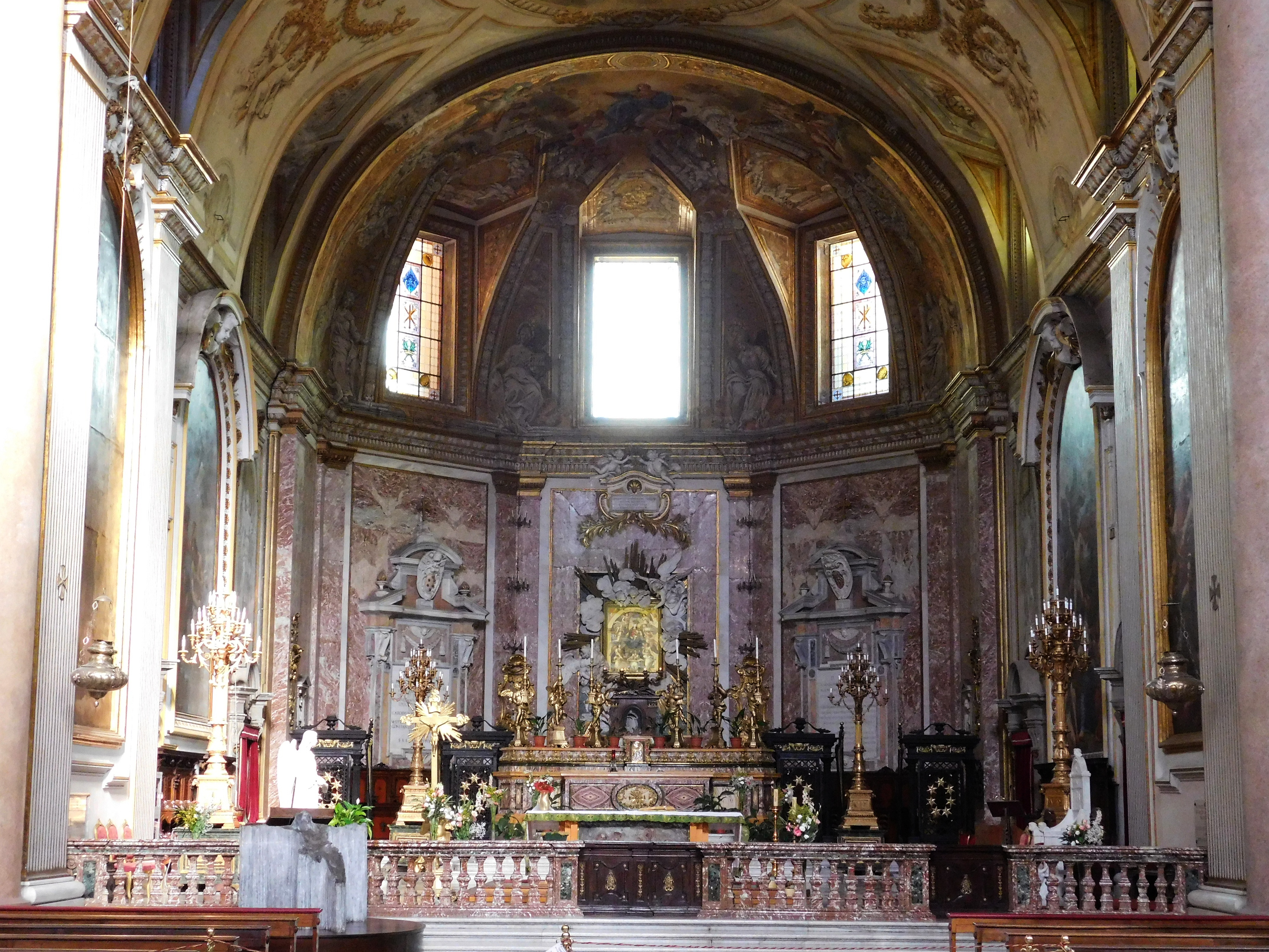 Rome, the Basilica of St. Mary of the Angels and the Martyrs